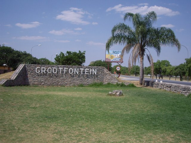 the famous entry sign in grootfontein